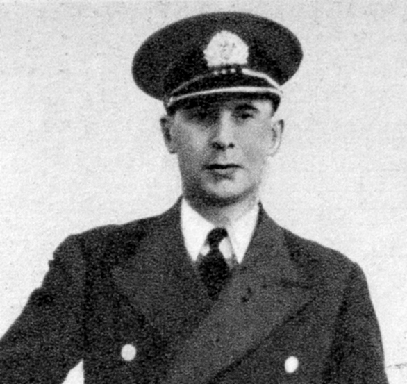 Polish Navy officer Borys Karnicki (1907-1985)